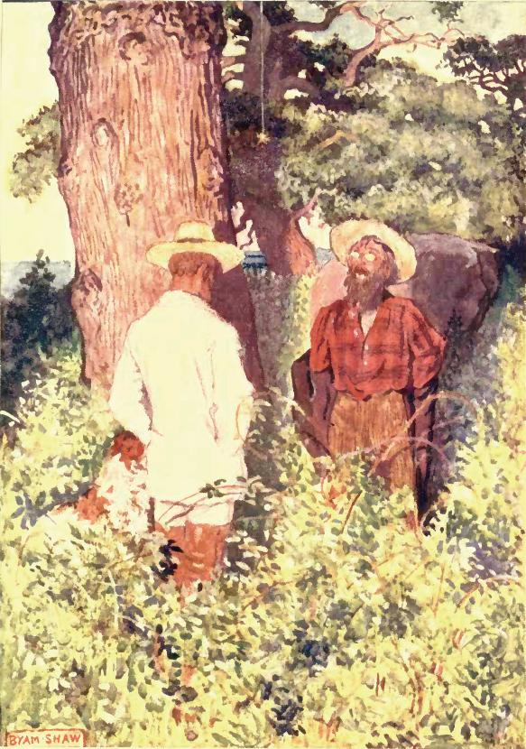 Byam Shaw's illustration for Poe's The Gold-Bug in "Selected Tales of Mystery" (London : Sidgwick & Jackson, 1909) on the page to face p. 46 with caption "The beetle, which he had suffered to descend, was now visible at the end of the string"